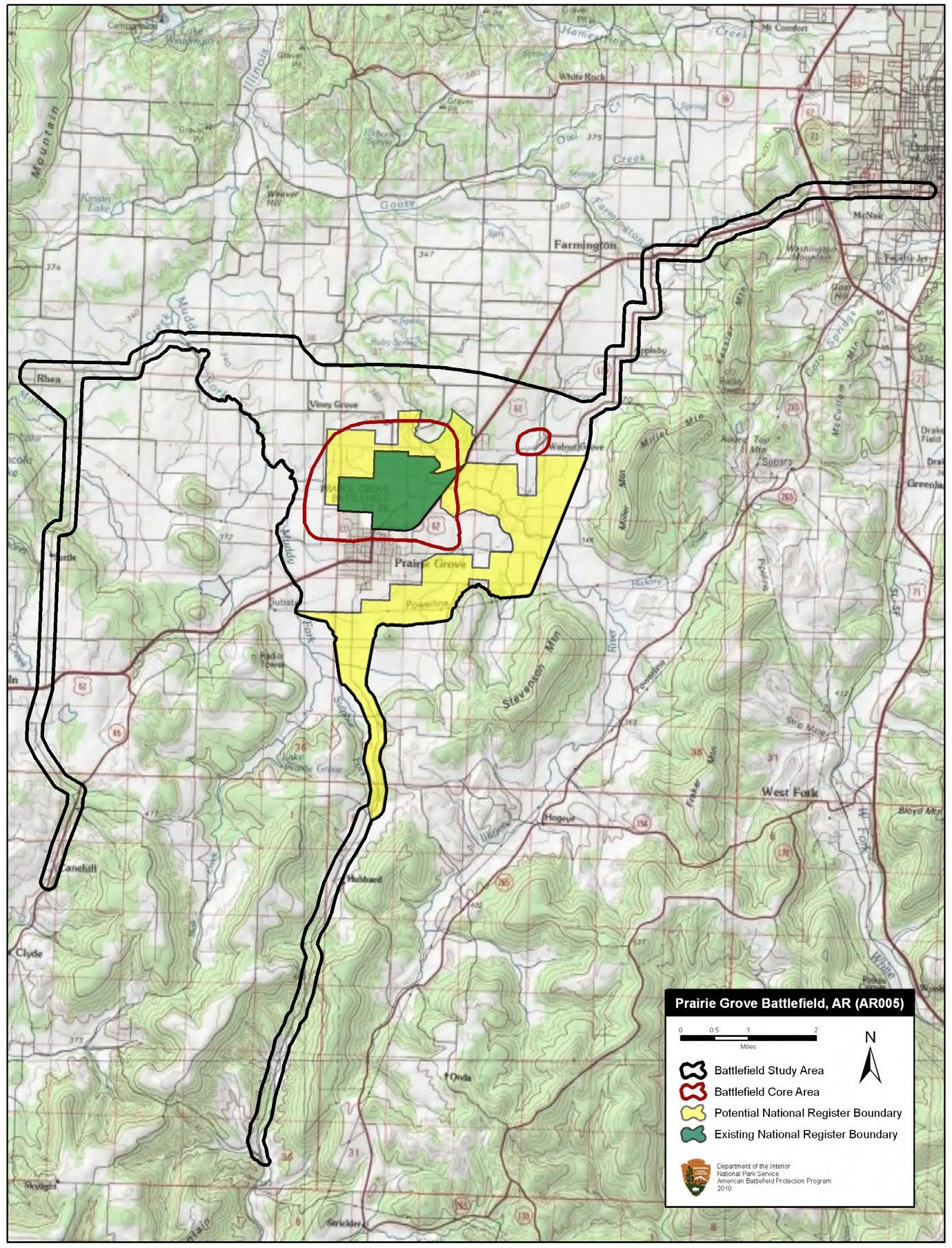 Map of battlefield core and study areas. The Study Area was expanded to include the Confederate approach route from Morrow and the Federal advances from Cane Hill and Fayetteville. The Study Area was also revised to conform to the high ground around Crawford's Prairie. The Core Area was reduced to firing ranges of the artillery employed during the battle. The ABPP added a new Core Area at Walnut Grove to represent the cavalry fight that preceded the general action.